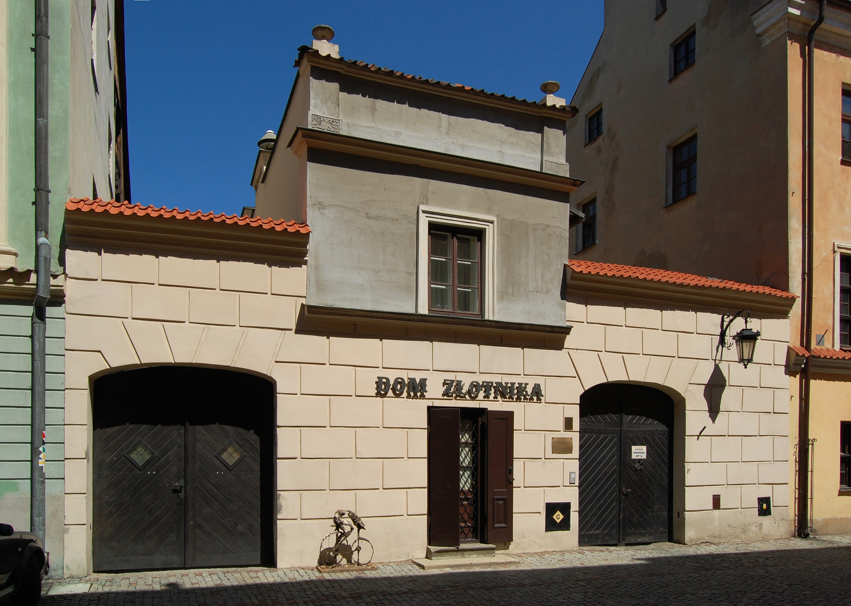 Dom Złotnika (Goldsmith's House) in Lublin, Poland.